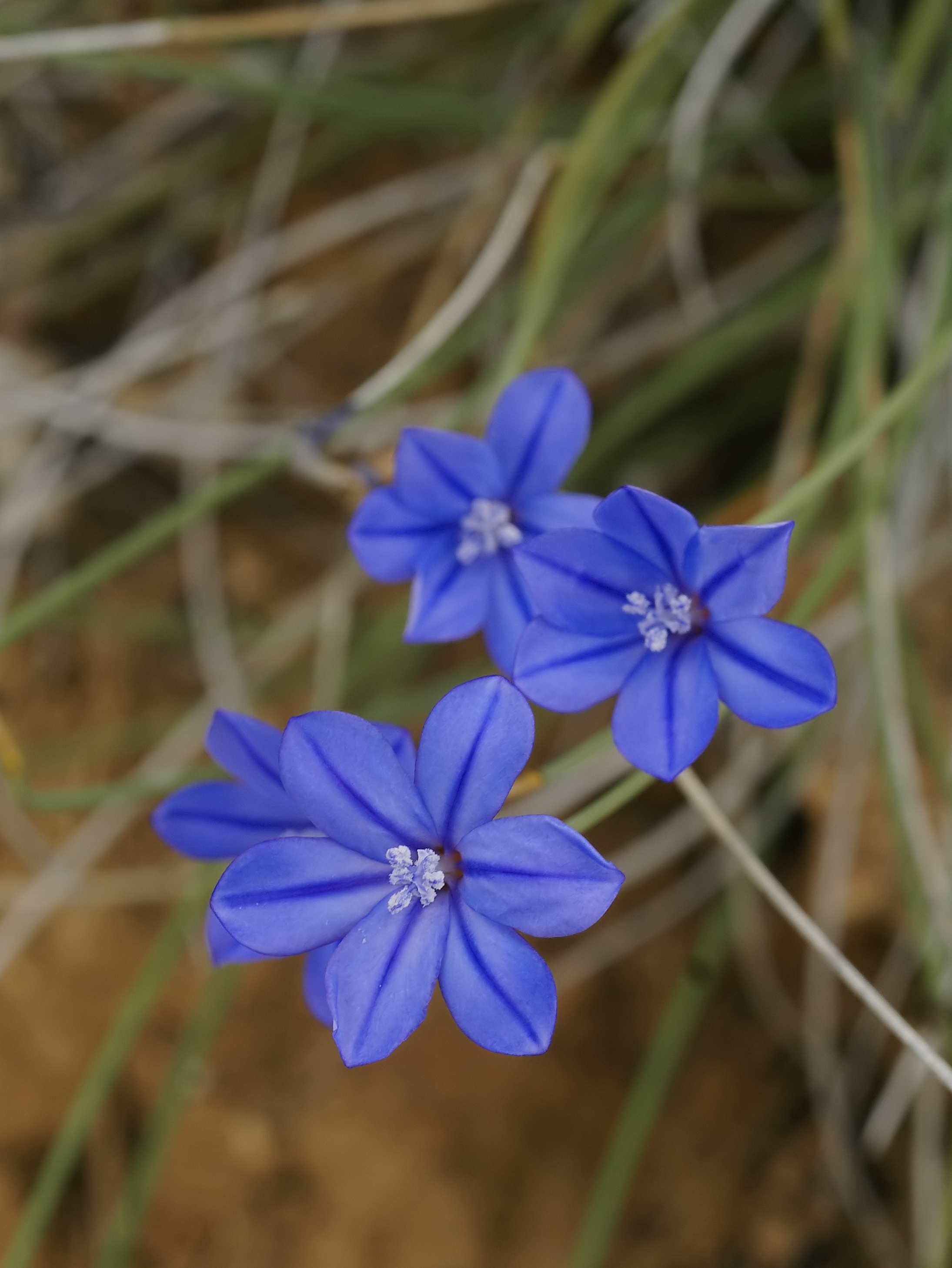 near el Perelló, Catalonia, Spain